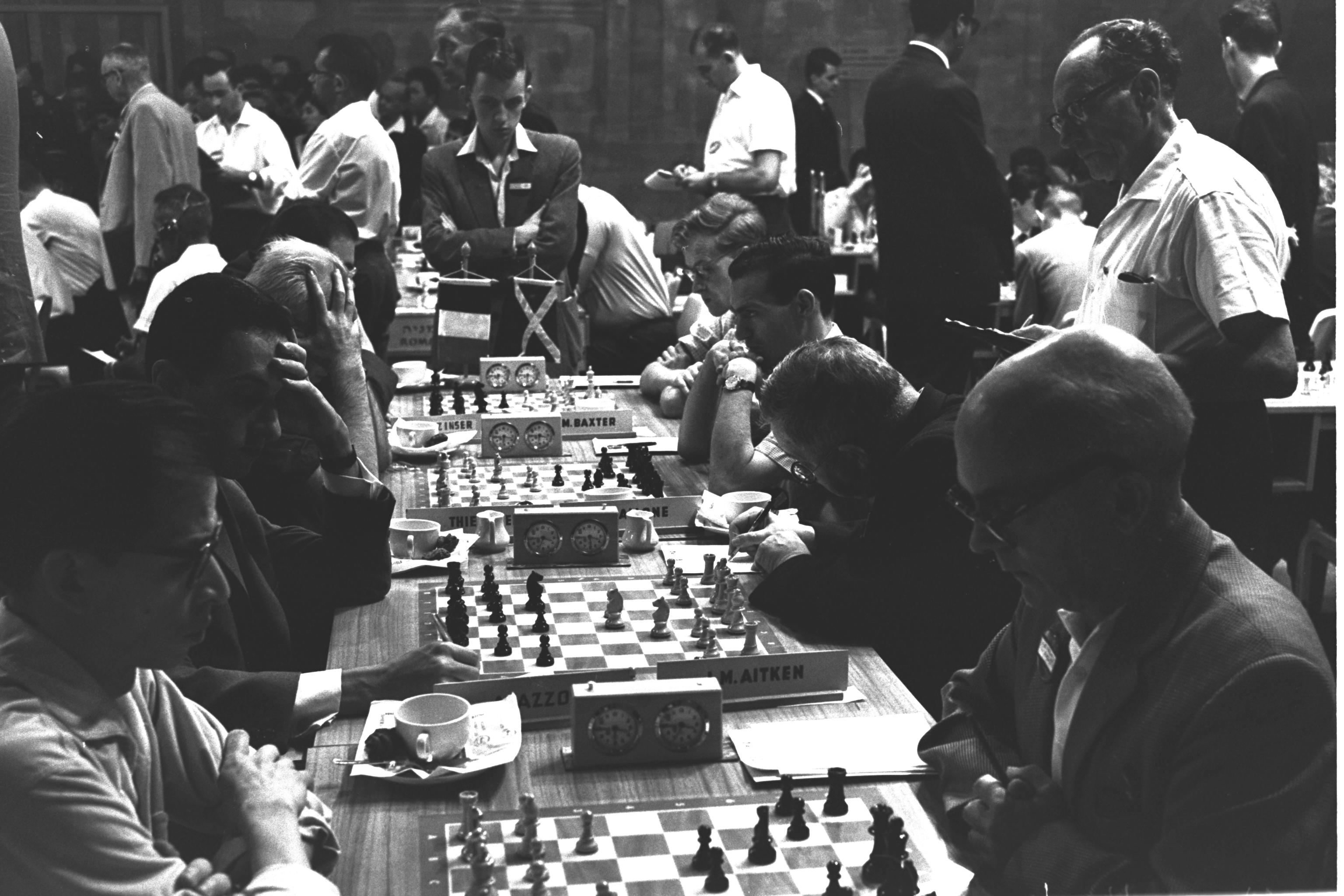 THE INTERNATIOPAL CHESS OLYMPIAD, HELD AT TEL AVIV'S "SHERATON" HOTEL. IN THE PHOTO, A GAME BETWEEN FRANCE & SCOTLAND.